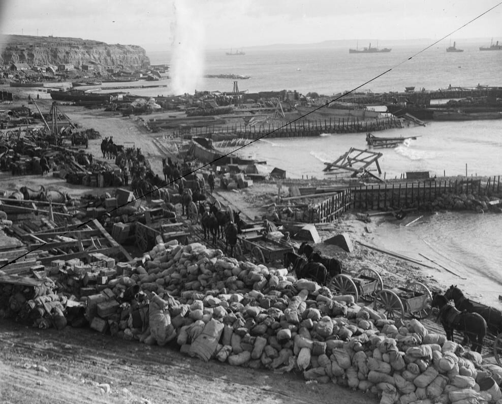 W Beach (Lancashire Landing) at Cape Helles, Gallipoli, 7 January 1916, just prior to the final evacuation of British forces during the Battle of Gallipoli. The explosion of a Turkish shell in the water, fired from the Asian shore of the Dardanelles, can be seen.